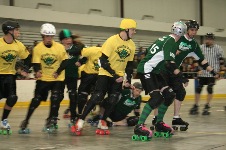 Mens roller derby magic city misfits